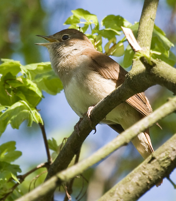 Singing Nightingale (Luscinia megarhynchos), in Berlin, Germany